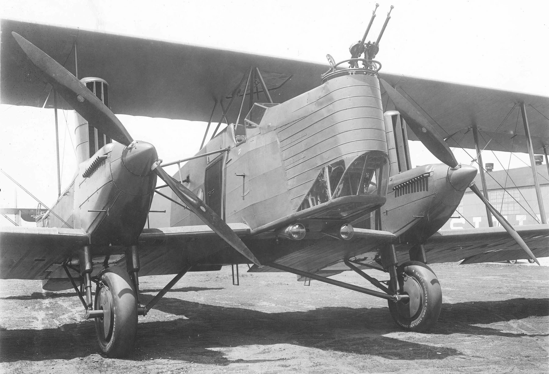 Curtiss XB-2 Condor bomber, front closeup, showing twin Curtiss V-1570-7 Conqueror liquid-cooled V-12 engines with vertical radiators.